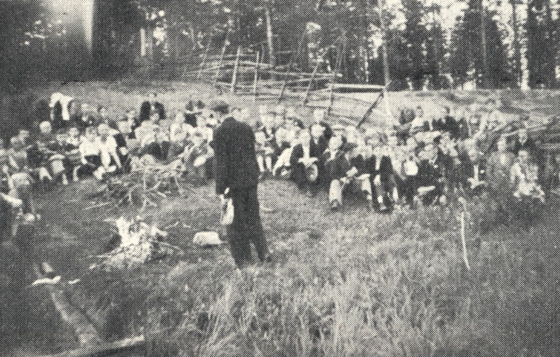 Lumivarra boys and pastor Kauko Kanervo